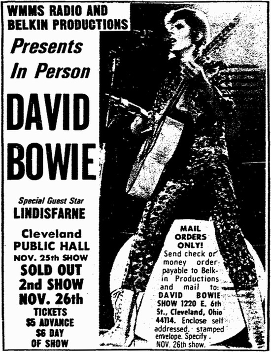 Print ad for David Bowie rock concert